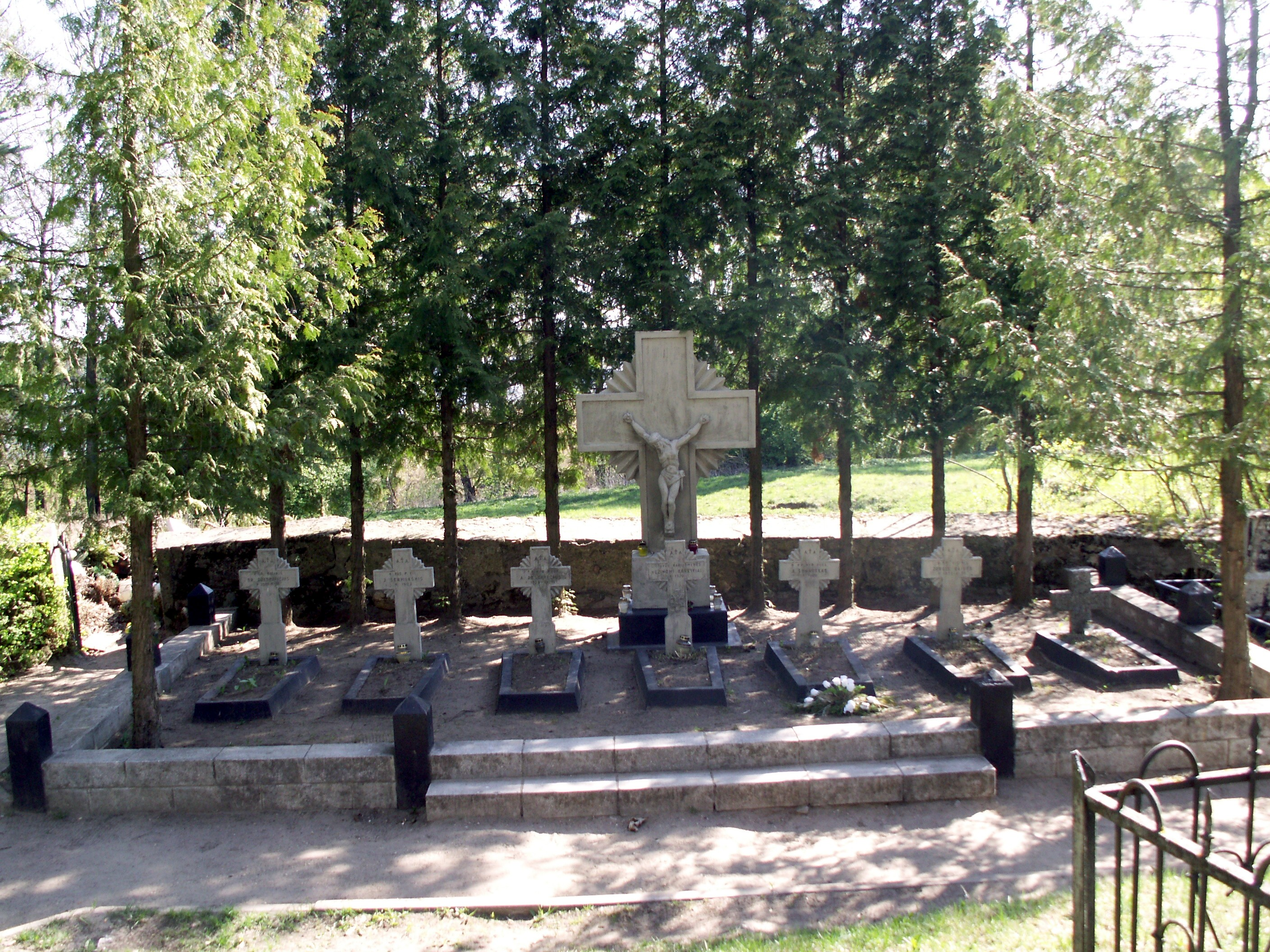 Graves of lithuanian soldiers in Giedraičiai, Lithuania